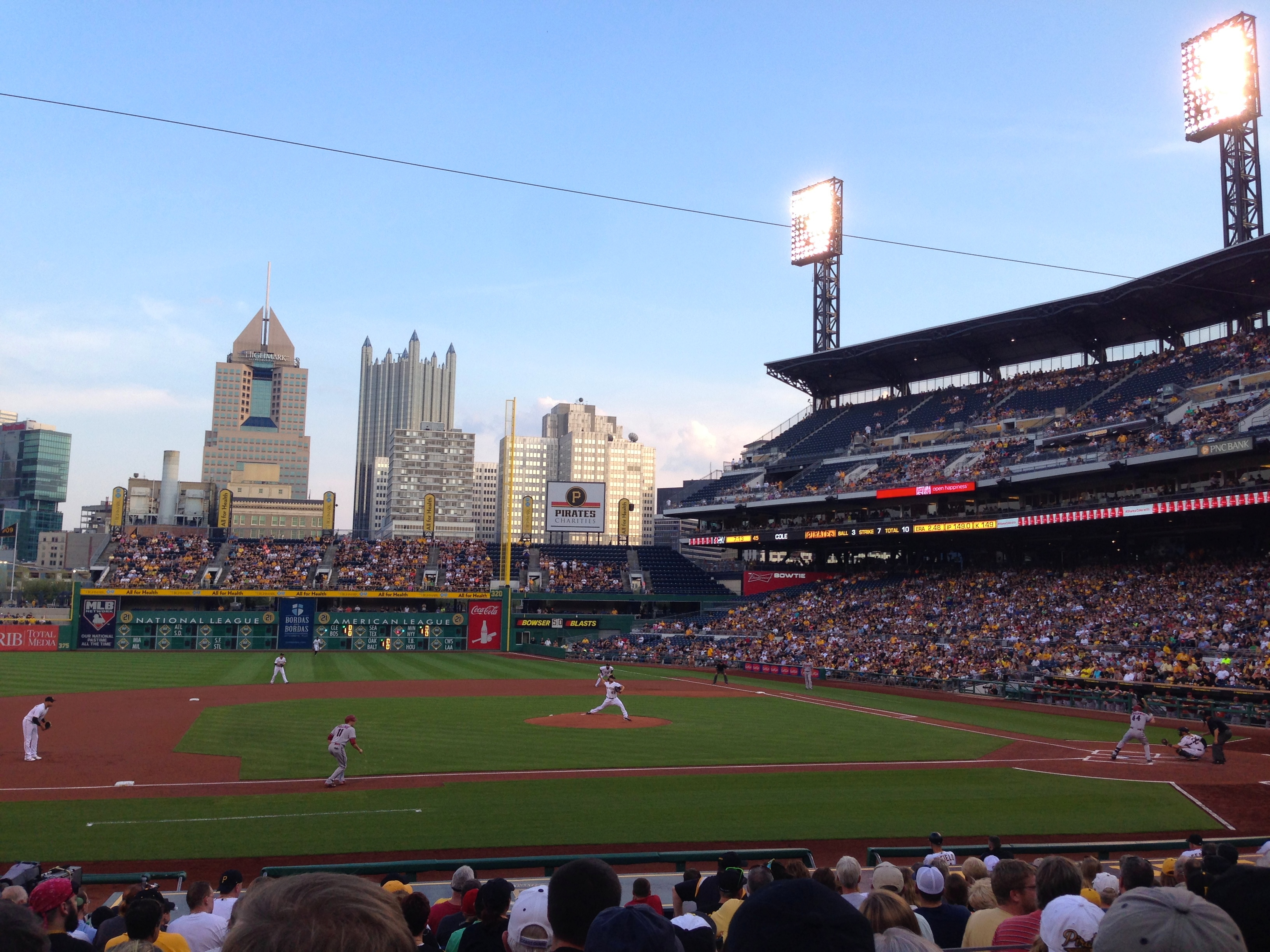 Arizona Diamondbacks at Pittsburgh Pirates, 17 August 2015.